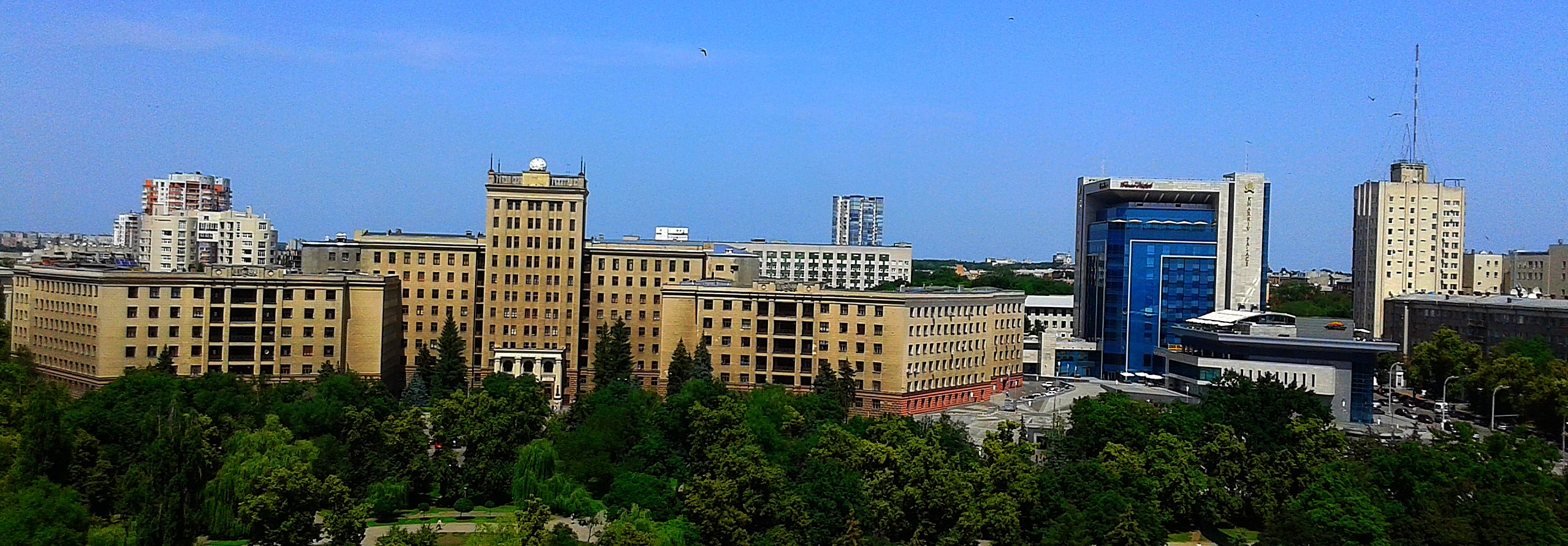 (43) PANORAMIC VIEW ON CENTRAL DISTRICT IN CITY OF KHARKIV STATE OF UKRAINE PHOTOGRAPH BY VIKTOR O LEDENYOV 20160621